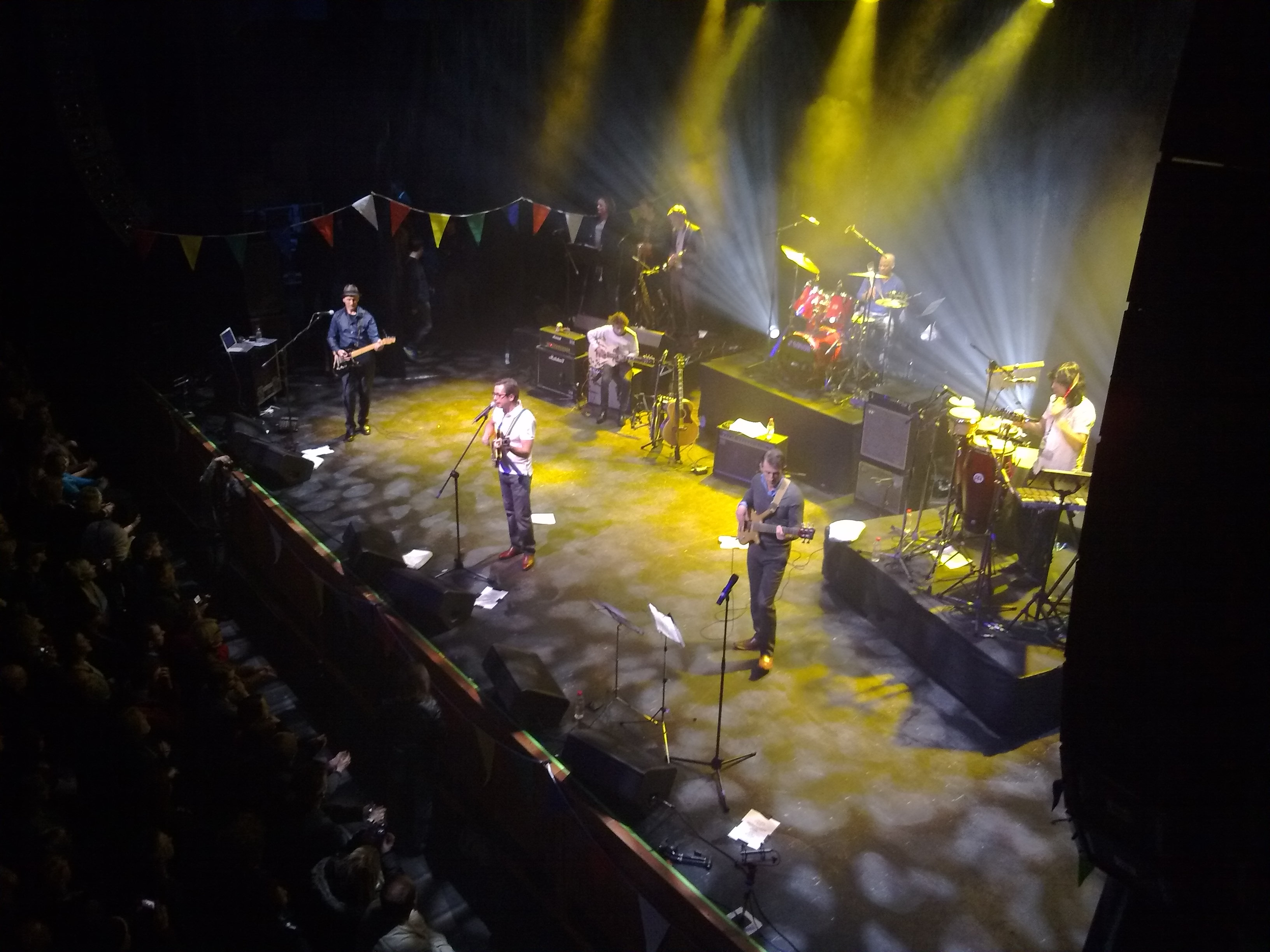 Haircut One Hundred live at the indigO2, London on 28th January 2011